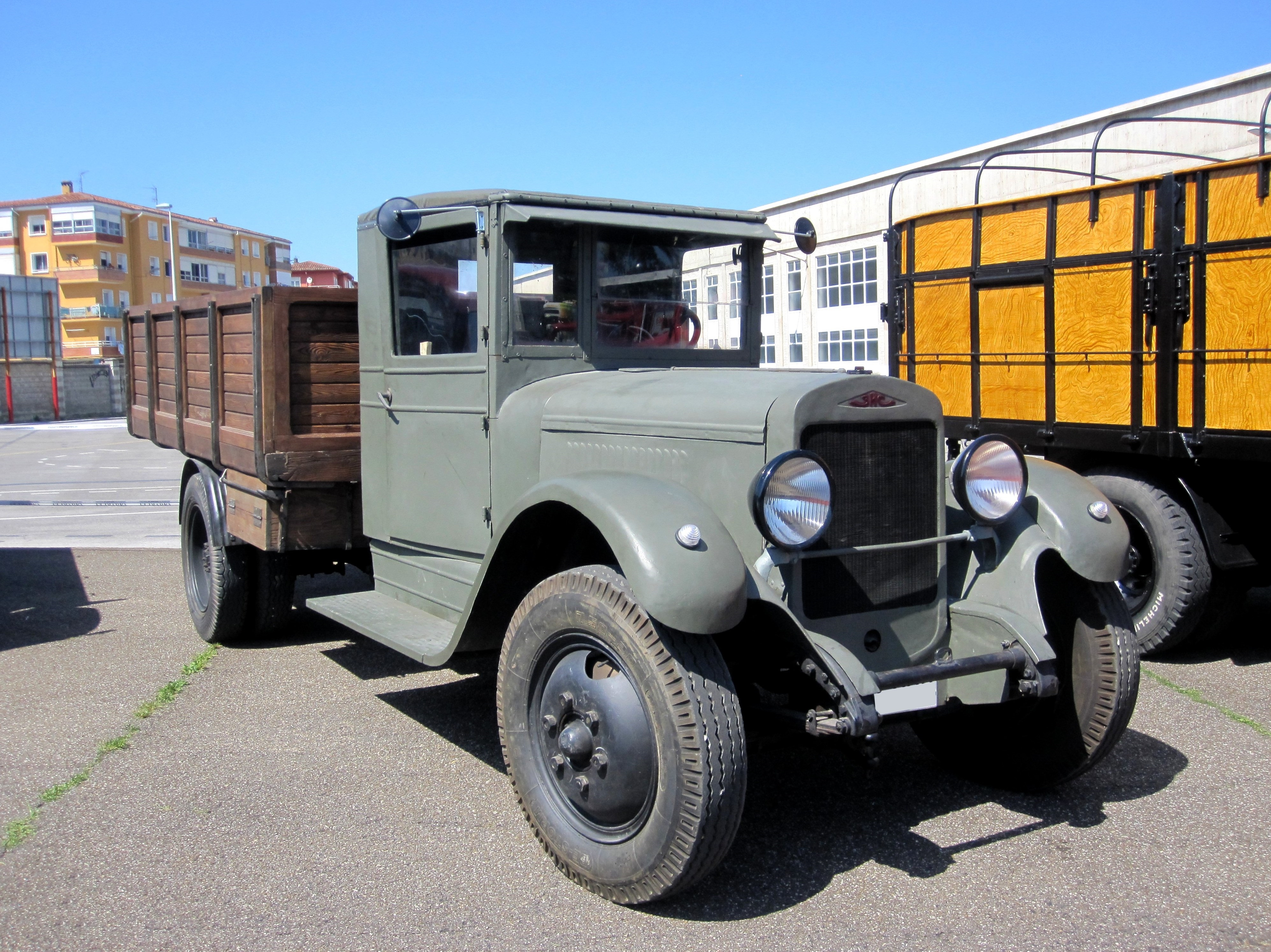 Never thought I'd see one of these in person!